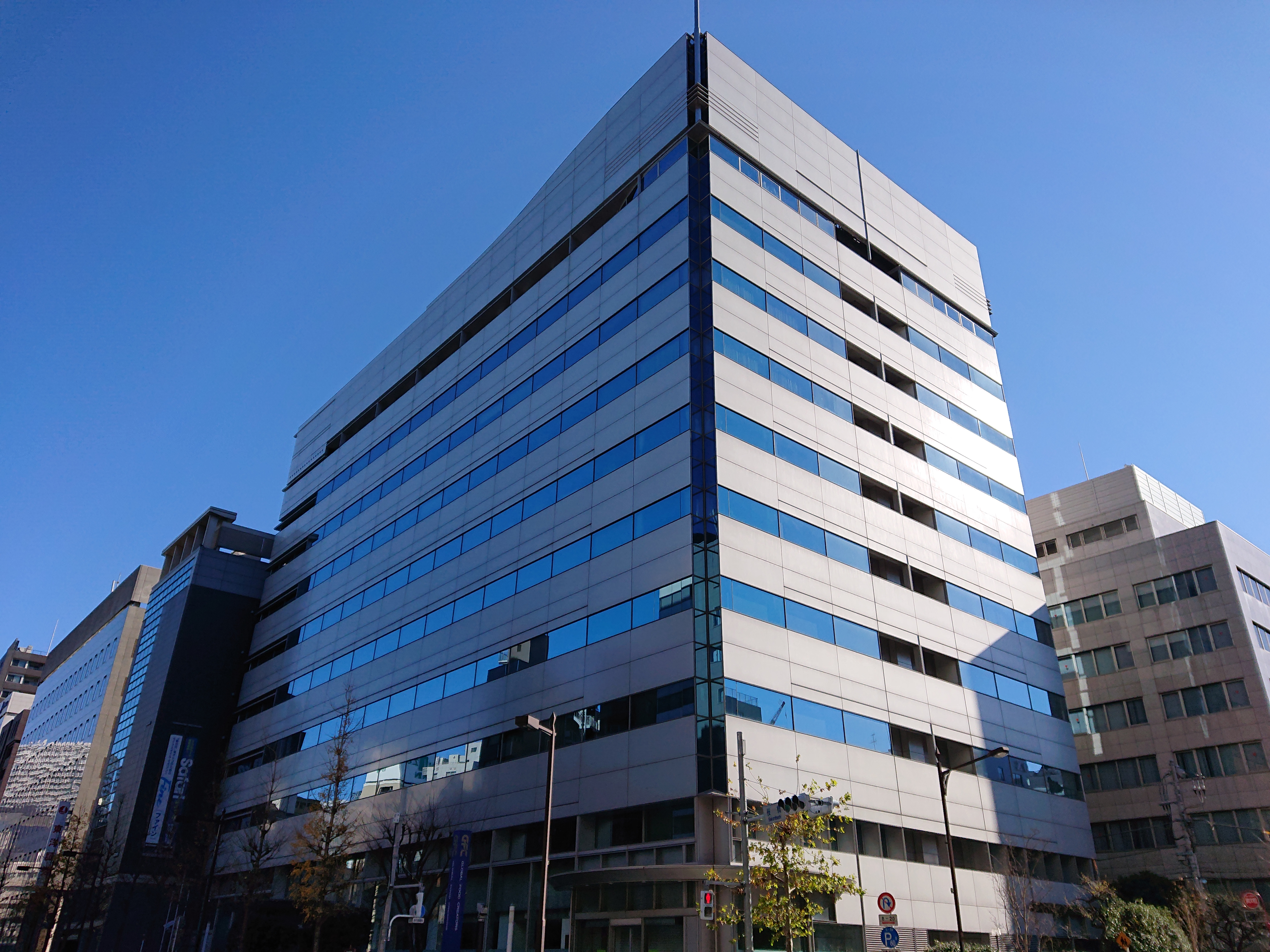 Hatchobori Center Building (八丁堀センタービル), located at 4-6-1 Hatchobori, Chuo, Tokyo, Japan